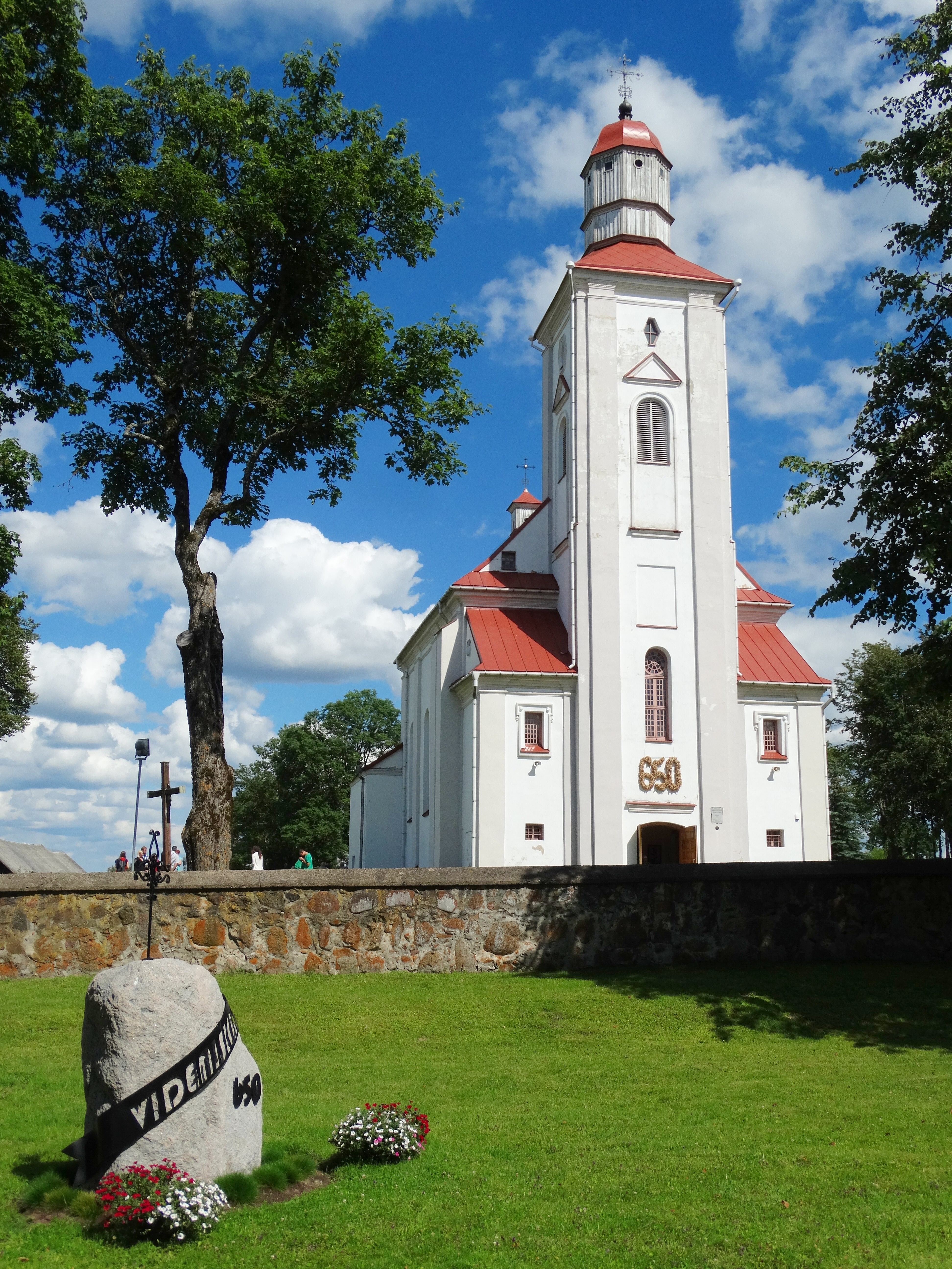 Church of Saint Lawrence, Videniškiai, Molėtai district, Lithuania